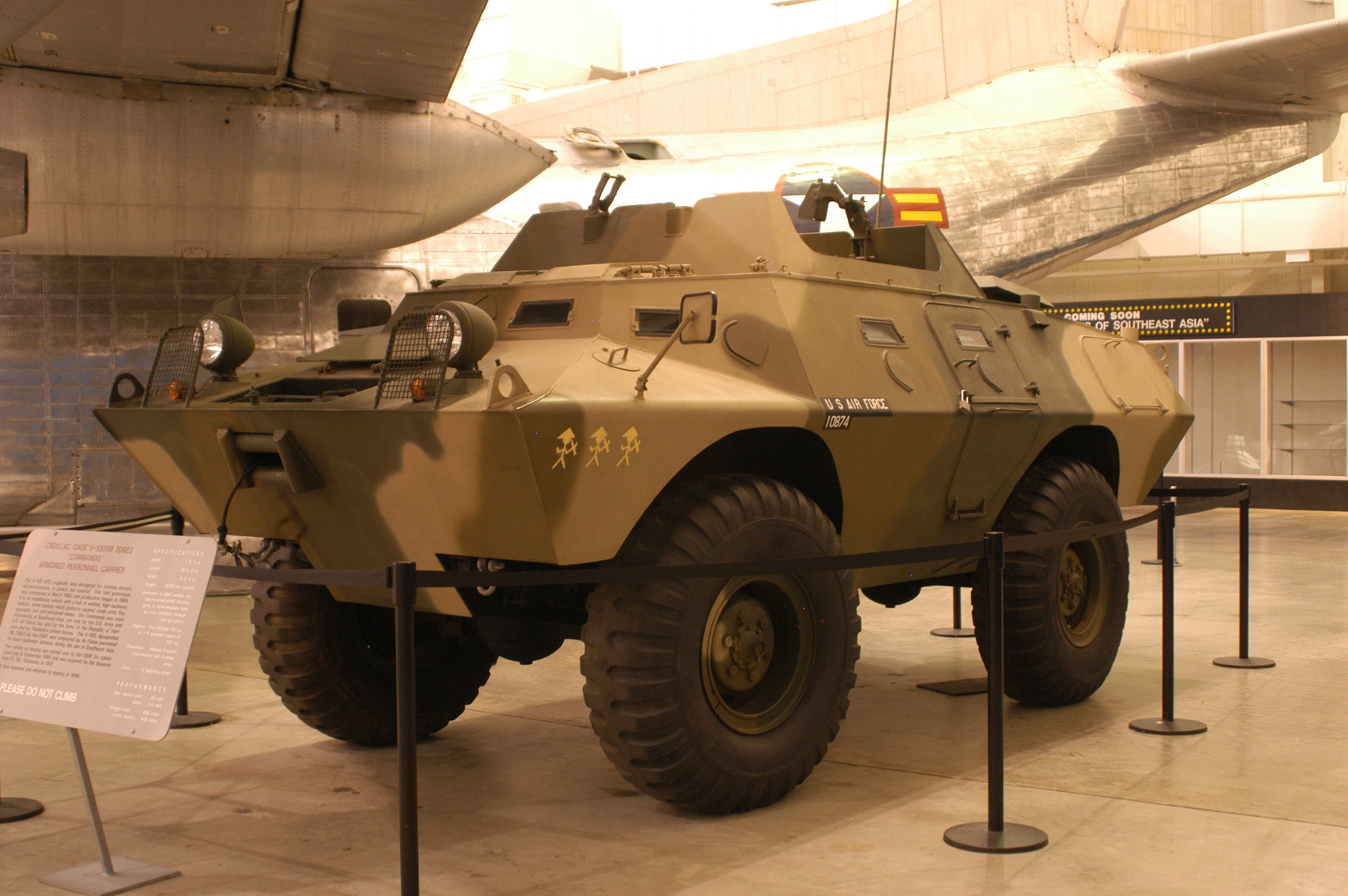 USAF Security Police XM706E2 APC